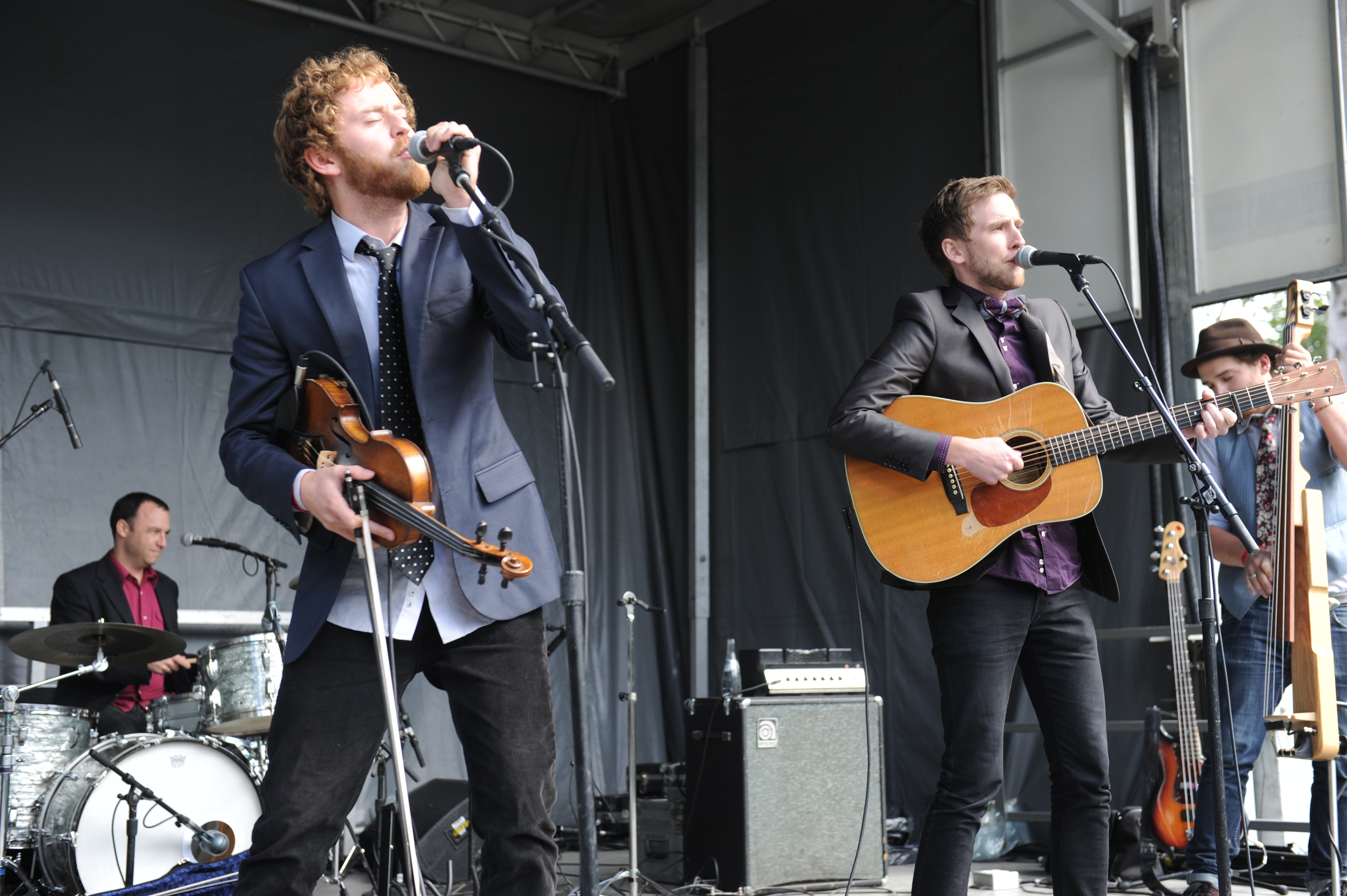 Slaight musical performers, The Abrams Brothers. The Canadian Film Centre (CFC) Annual BBQ was held on Sept. 9, 2012 in Toronto, Ontario in celebration of Canadian Talent at the 2011 Toronto International Film Festival. Learn more about the Annual BBQ by visiting To find out more about the Canadian Film Centre, please visit: Photo by Tom Sandler Photography